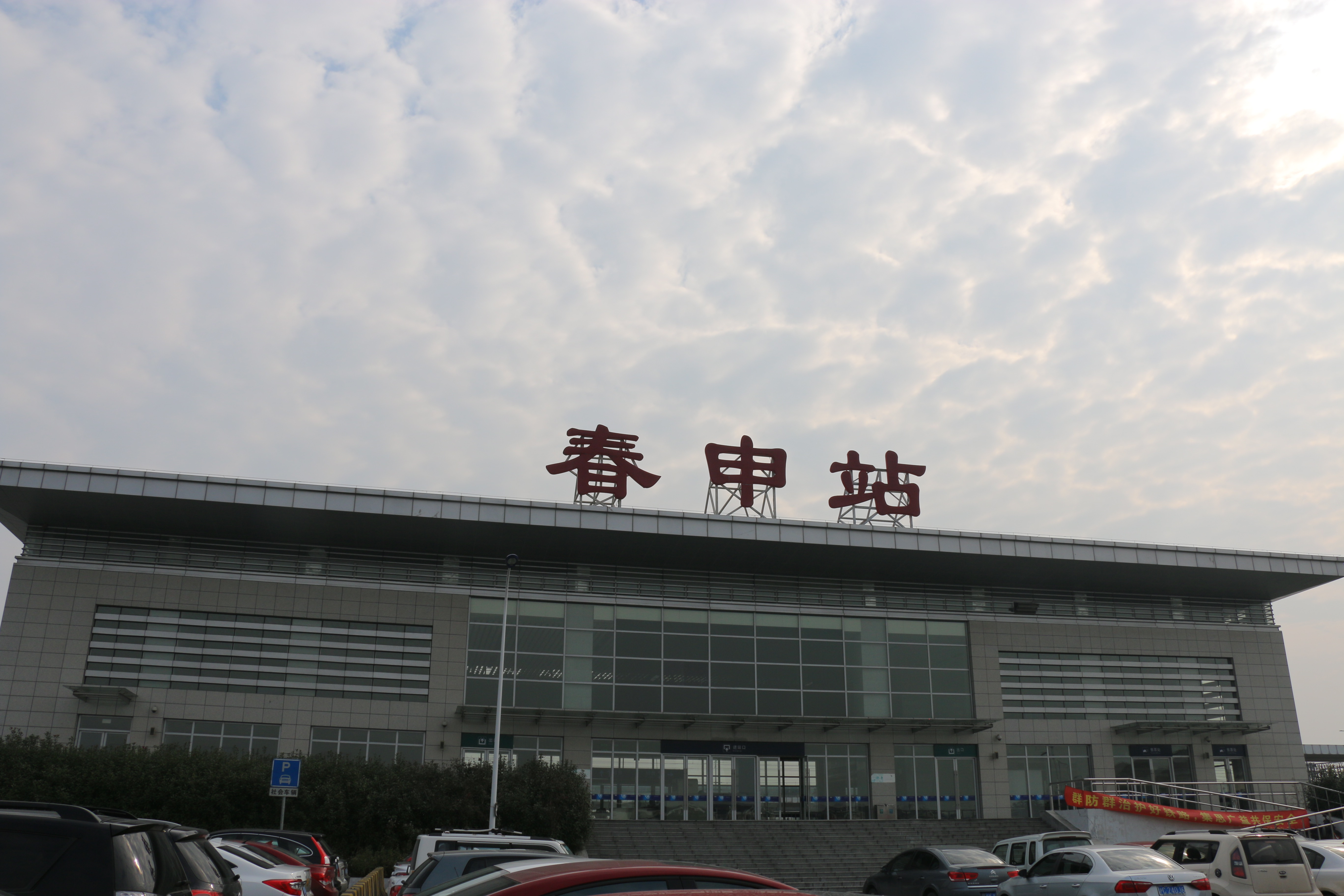 Facades of Chunshen Railway Station(2015)